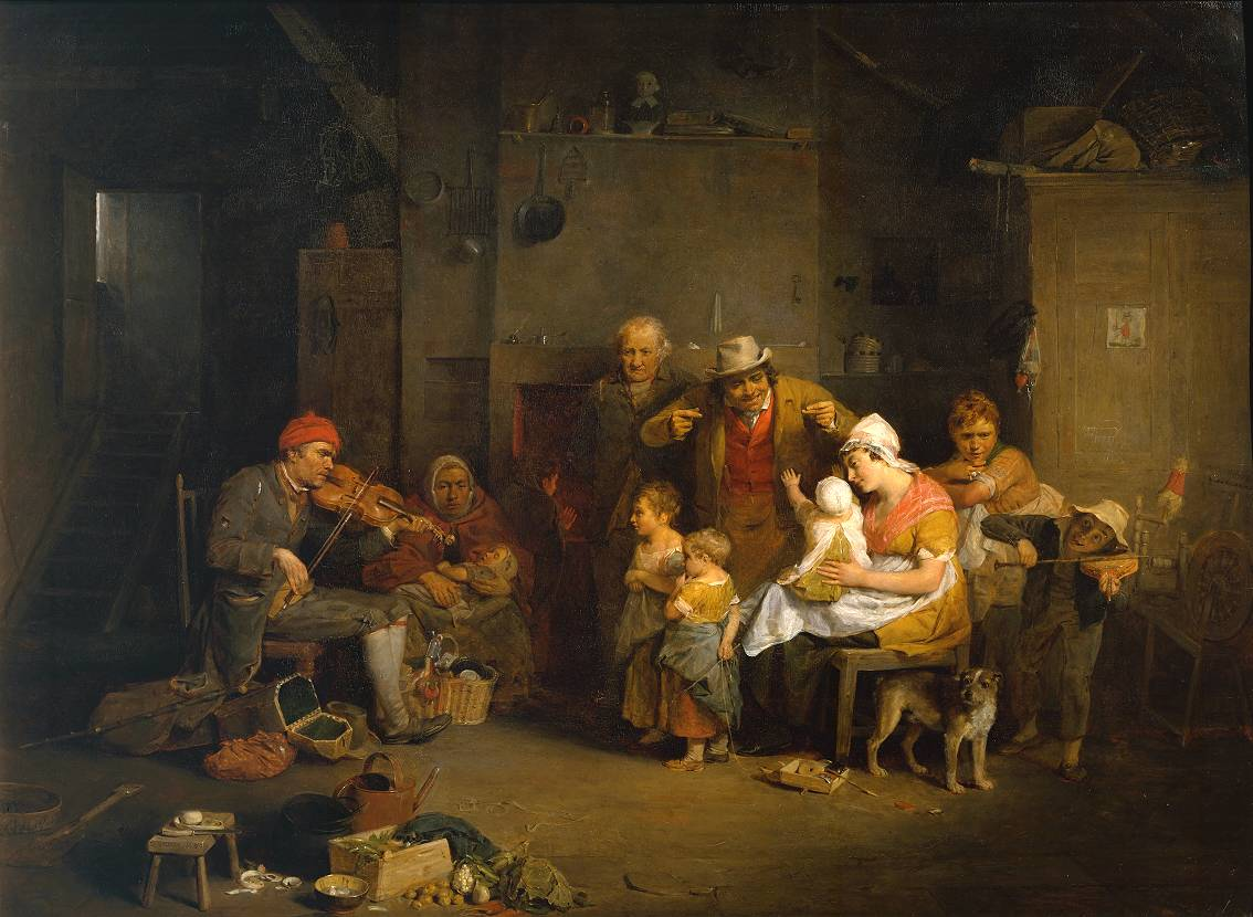 The Blind Fiddler (1806) by David Wilkie, Painting, Oil on mahogany, 57.8 x 79.4 cm, Tate Gallery, London